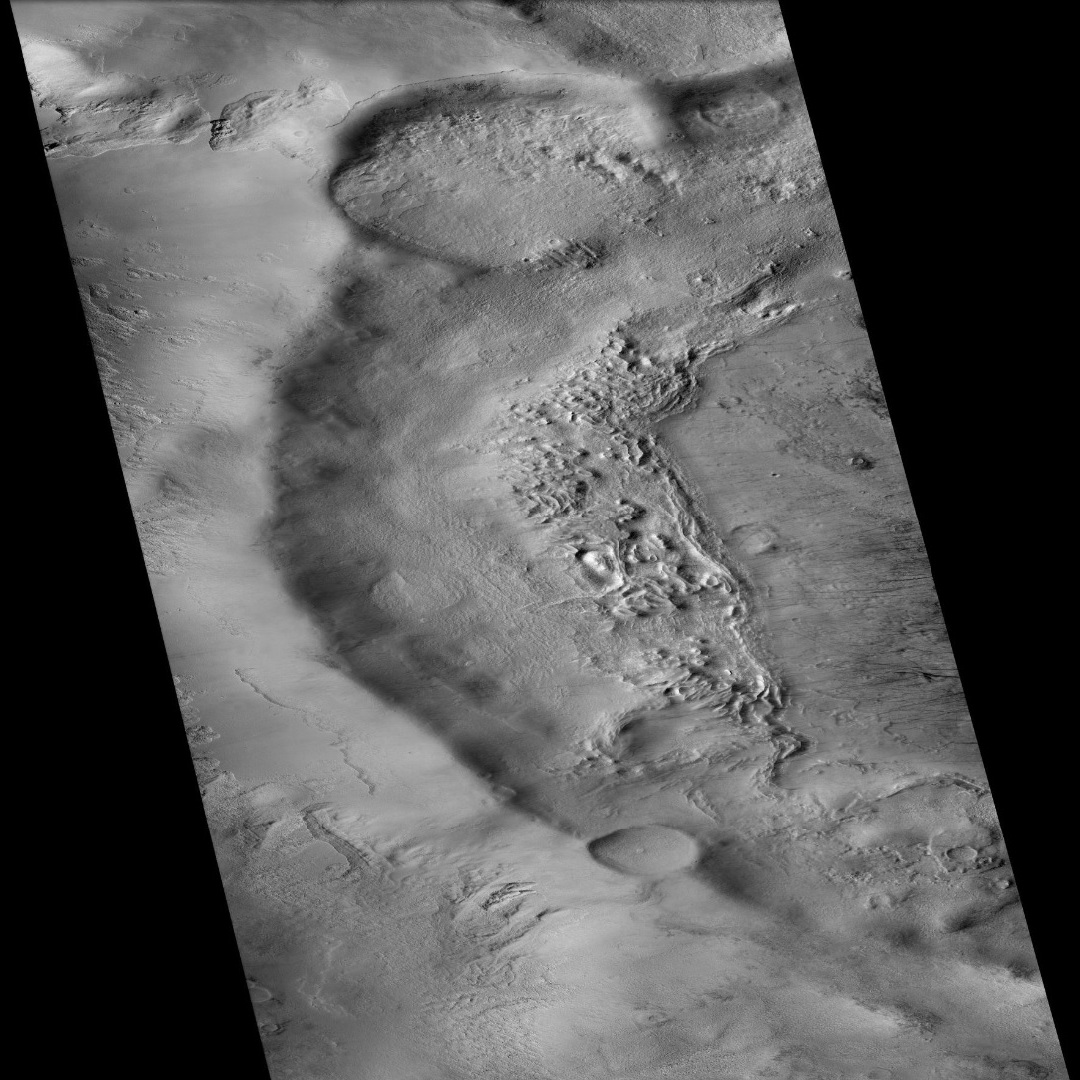 Redi Crater, as seen by CTX